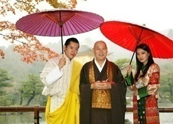 Bhutan royal visit Japan November 21, 2011